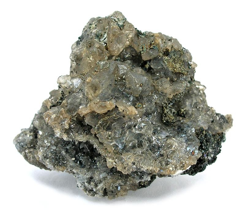 Calomel Locality: Mariposa Mine (California Mountain Mine), Terlingua District, Brewster County, Texas, USA (Locality at ) Size: 3.0 x 2.5 x 1.0 cm. A rich, nearly solid mass of gemmy calomel crystals to 6mm with minor eglestonite and cinnabar, from this important and classic locale for the species. They turn opaque in sunlight as you normally see them, so lustrous crystals of this quality are most uncommon.